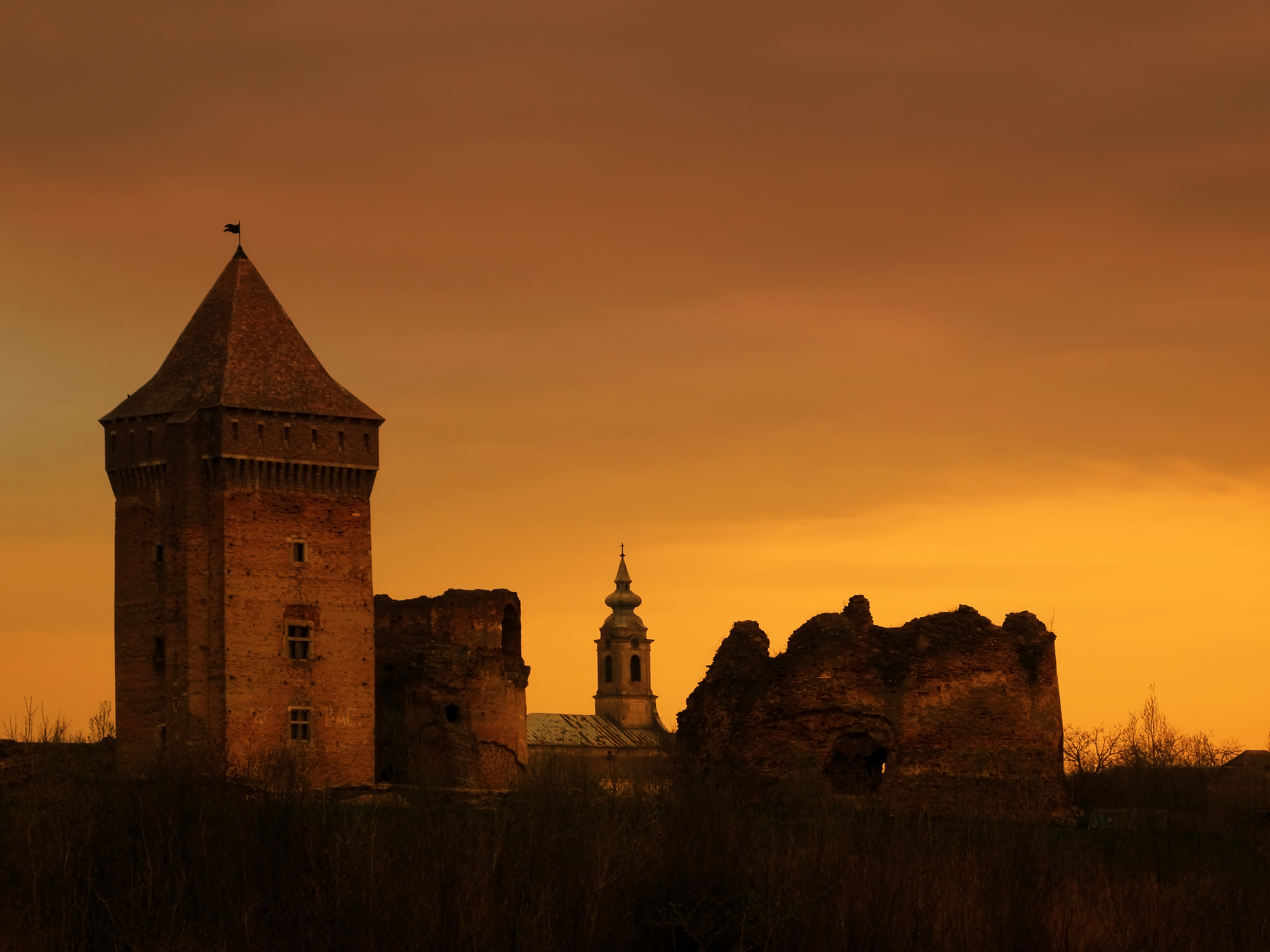 Bač fortress in Bač, Vojvodina, Serbia